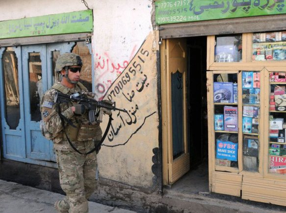 Then-1st Lt. Florent Groberg, platoon leader of 4th Platoon, Company D, 2nd Battalion, 12th Infantry Regiment, Task Force Lethal, patrols the city streets of Asad Abad, Afghanistan, Feb. 9, 2010. The unit was there to perform a pre-meeting security...